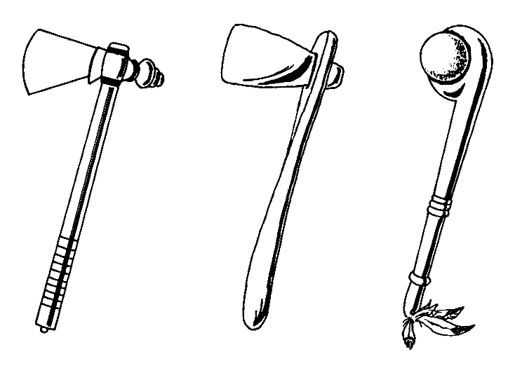 Line art drawing of three variations of a tomahawk